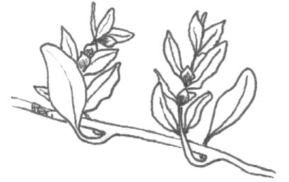 Actually Atriplex semibaccata, the scramblig berry saltbush